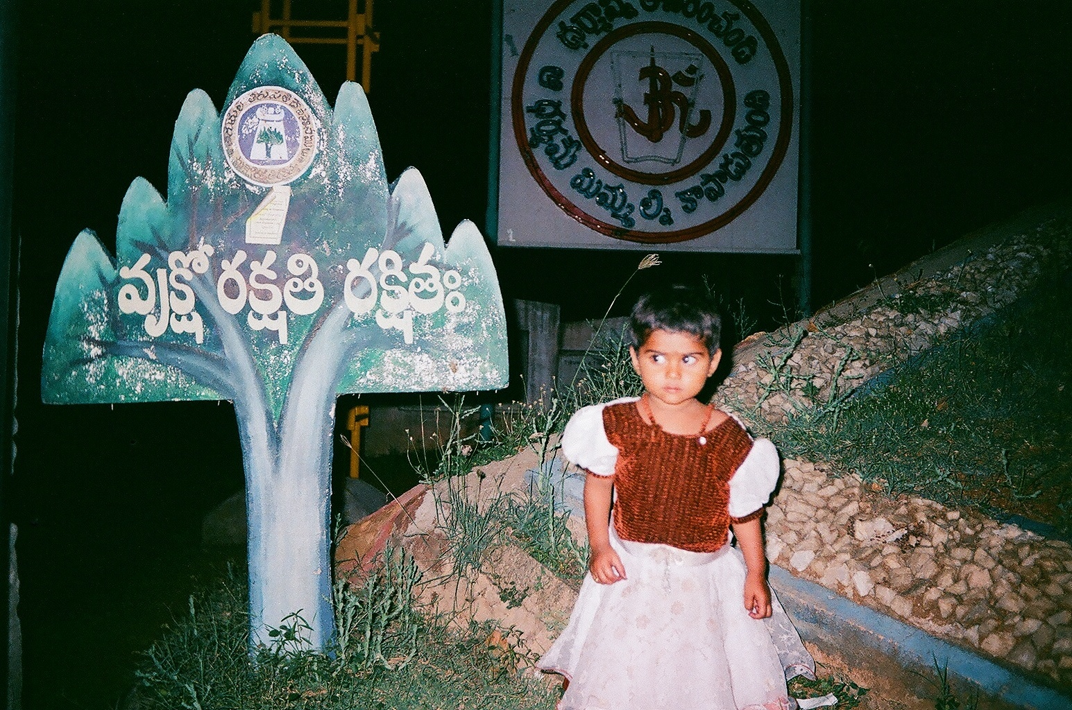 Tree Save Life Save